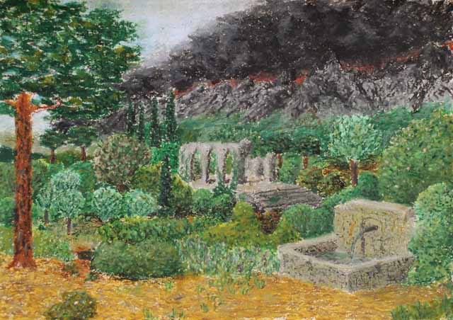 Ithilien